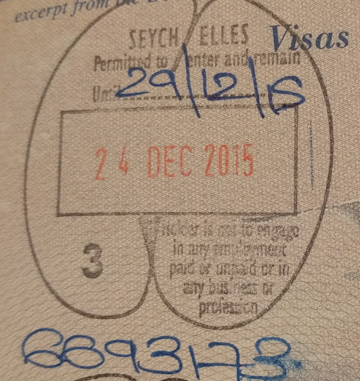 Entry stamp to the Seychelles